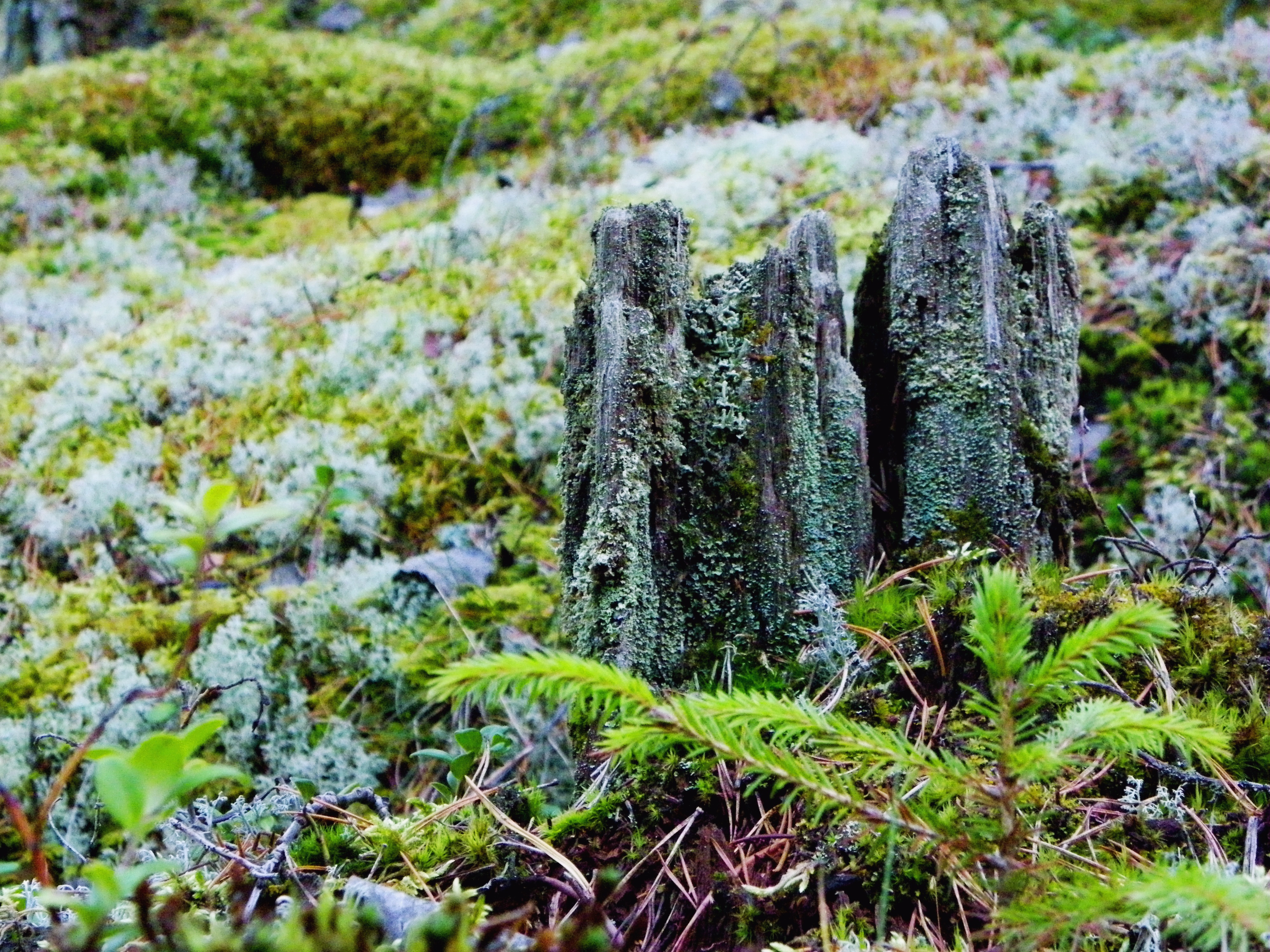 Tree stump in Tyresö, south of Stockholm.